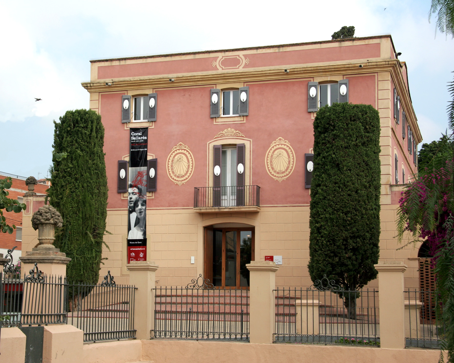 Front of the Gavà Museum